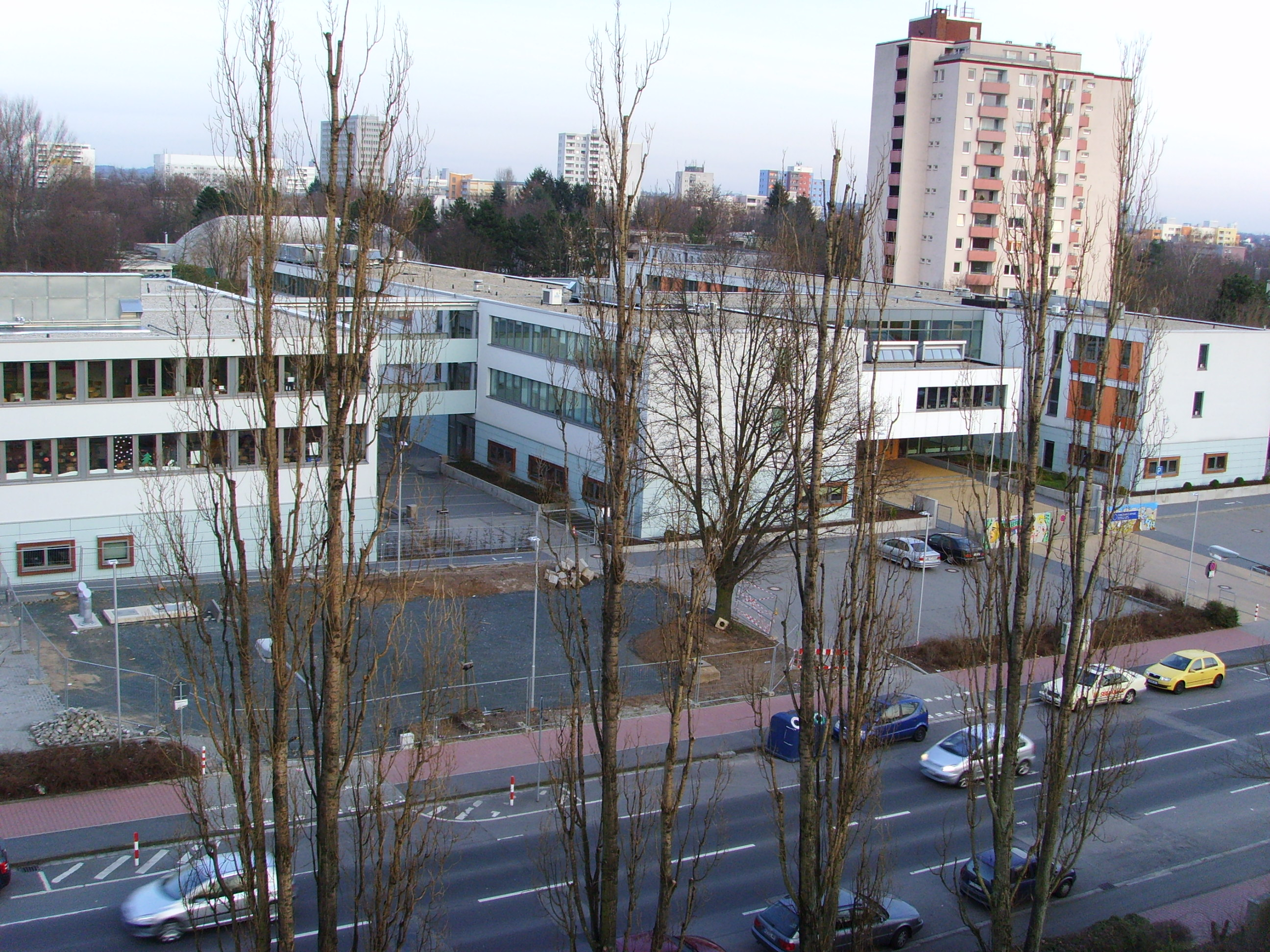 Europaeische Schule Frankfurt am Main (Teilansicht), Frankfurt-Nordweststadt, Praunheimer Weg European School (International school), Frankfurt am Main this photo was taken by User:Gerbil from de.Wikipedia in february 2007